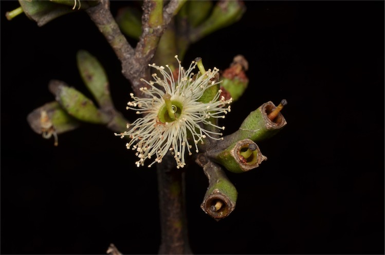 Eucalyptus froggattii flower and spent flowers in the Australian National Botanic Garden